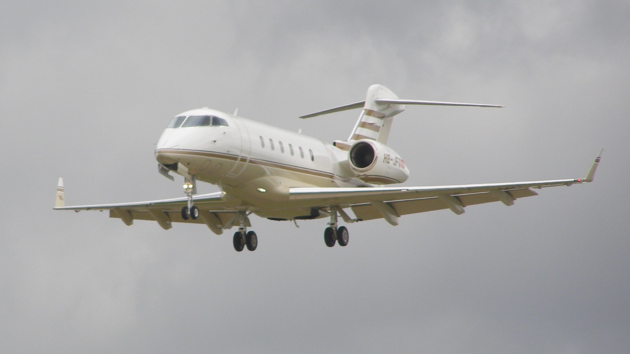 Bombardier Challenger 300 registered HB-JFO at Farnborough Airport, England